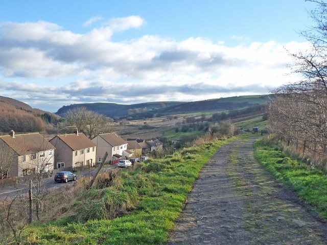 Former railway line, Fochriw